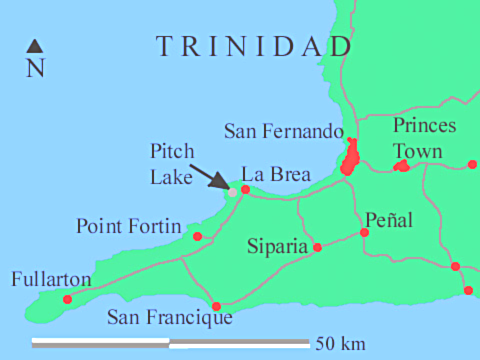 English map of the southwestern part of Trinidad: Pitch Lake